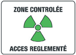 signalisation of a low radiation zone